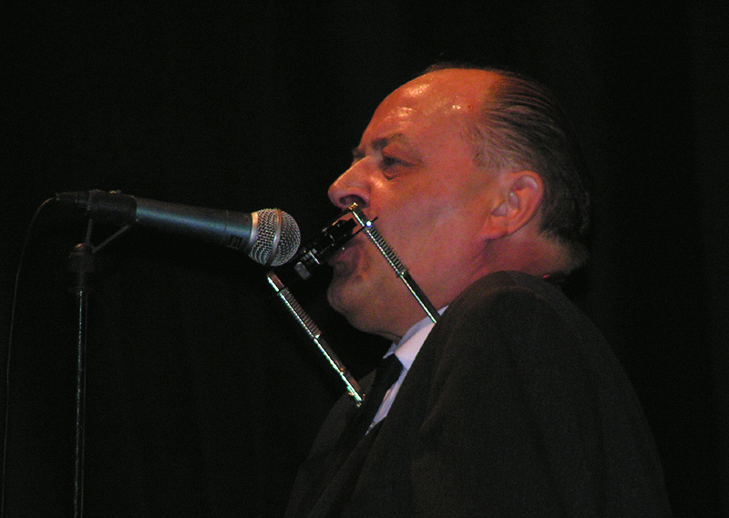 Henning Staerk in concert in Roskilde during a Culture Night Show, September 2nd, 2005